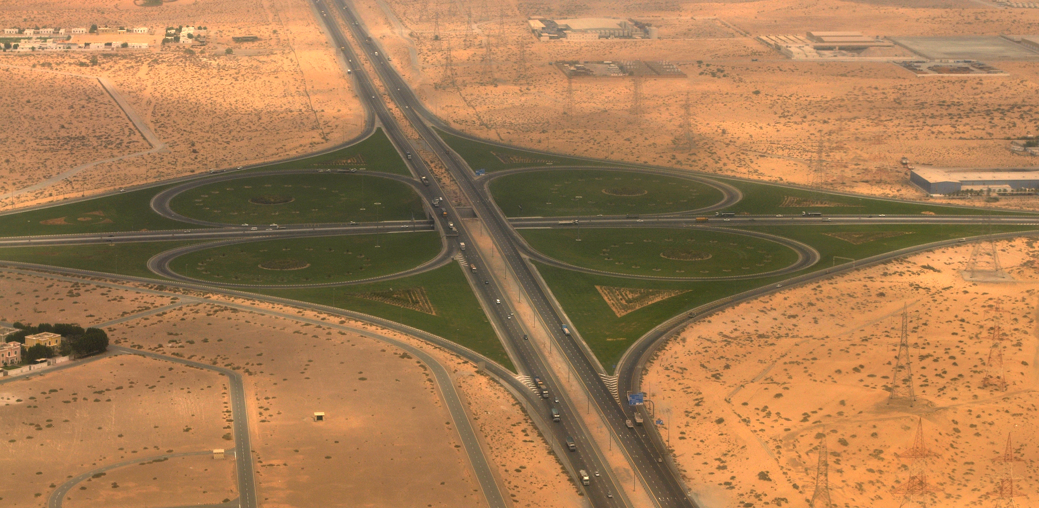 A Flyover near Sharjah International Airport. An aerial view